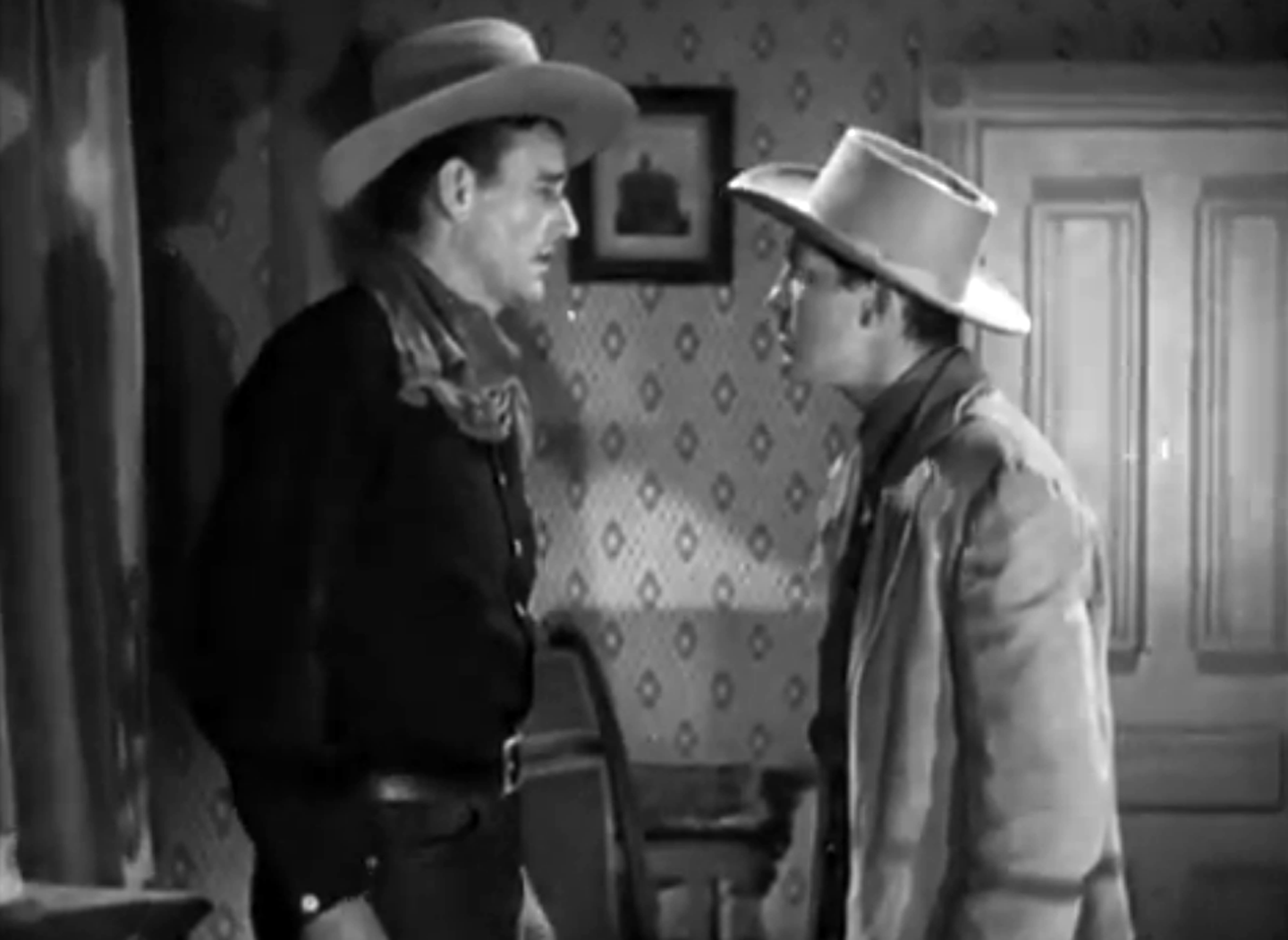 John Wayne and Russell Wade in the Tall in the Saddle (1944) trailer